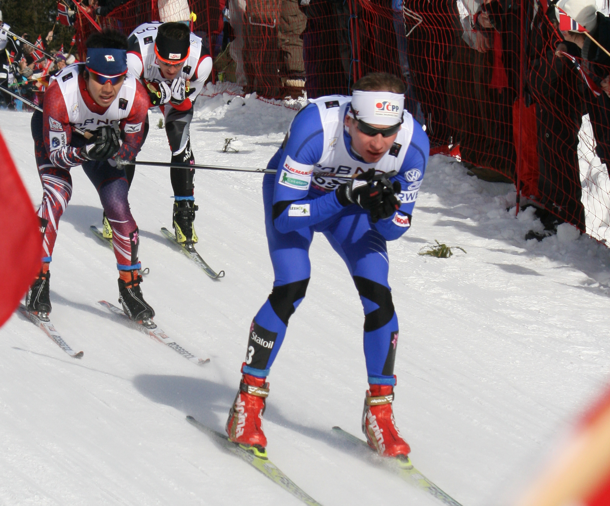 FIS Nordic World Ski Championships 2011 in Oslo: Lukas Bauer (Czech Republic) at the men's 50 km.